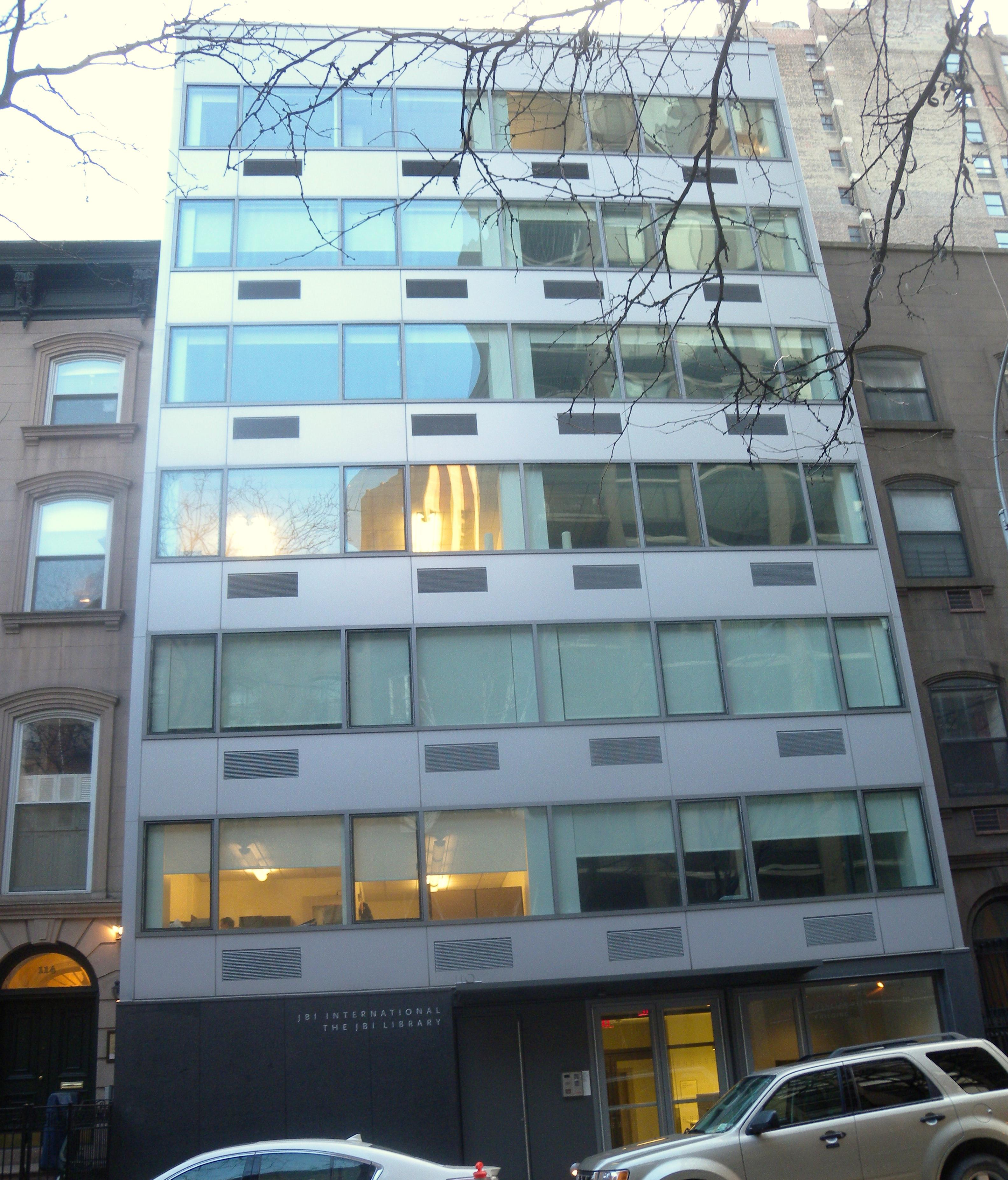 Looking south across 30th St at JBI International on a cloudy afternoon.